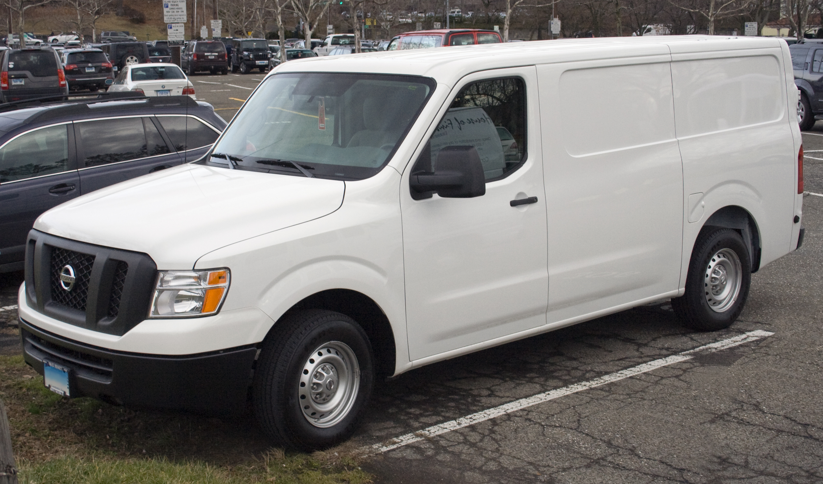 2012 Nissan NV1500